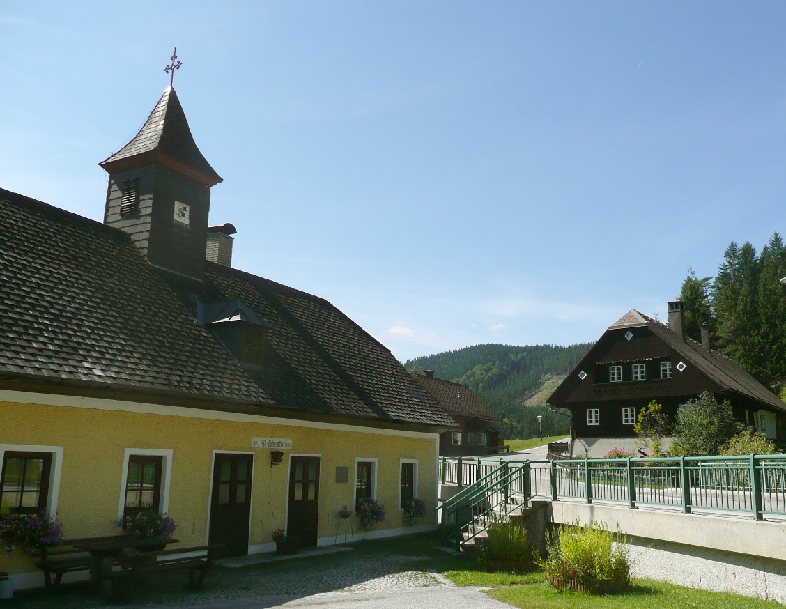 The old Lahnsattel near Mürzsteg, Mürz valley, Styria